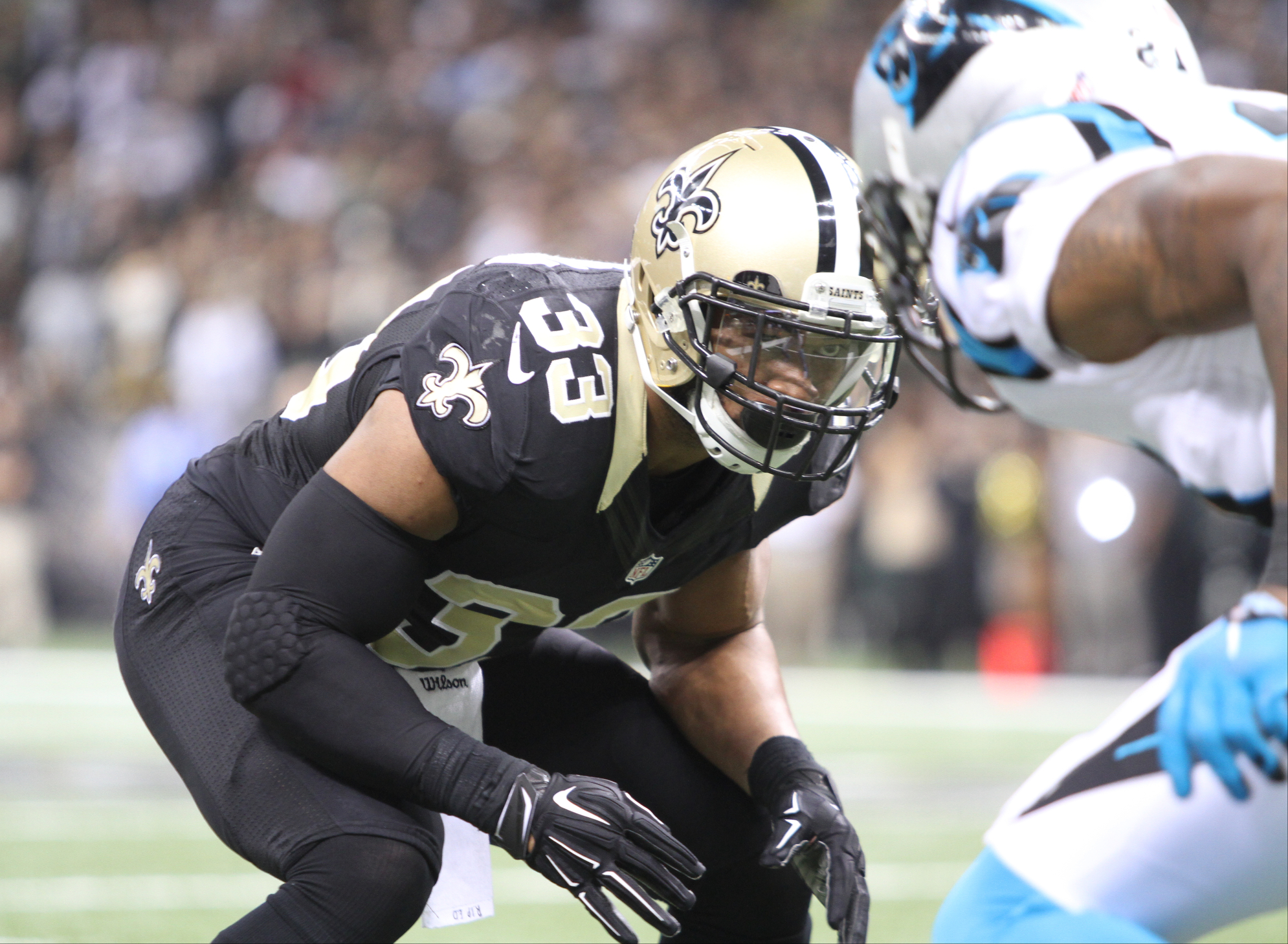 Tammy Anthony Baker, Photographer